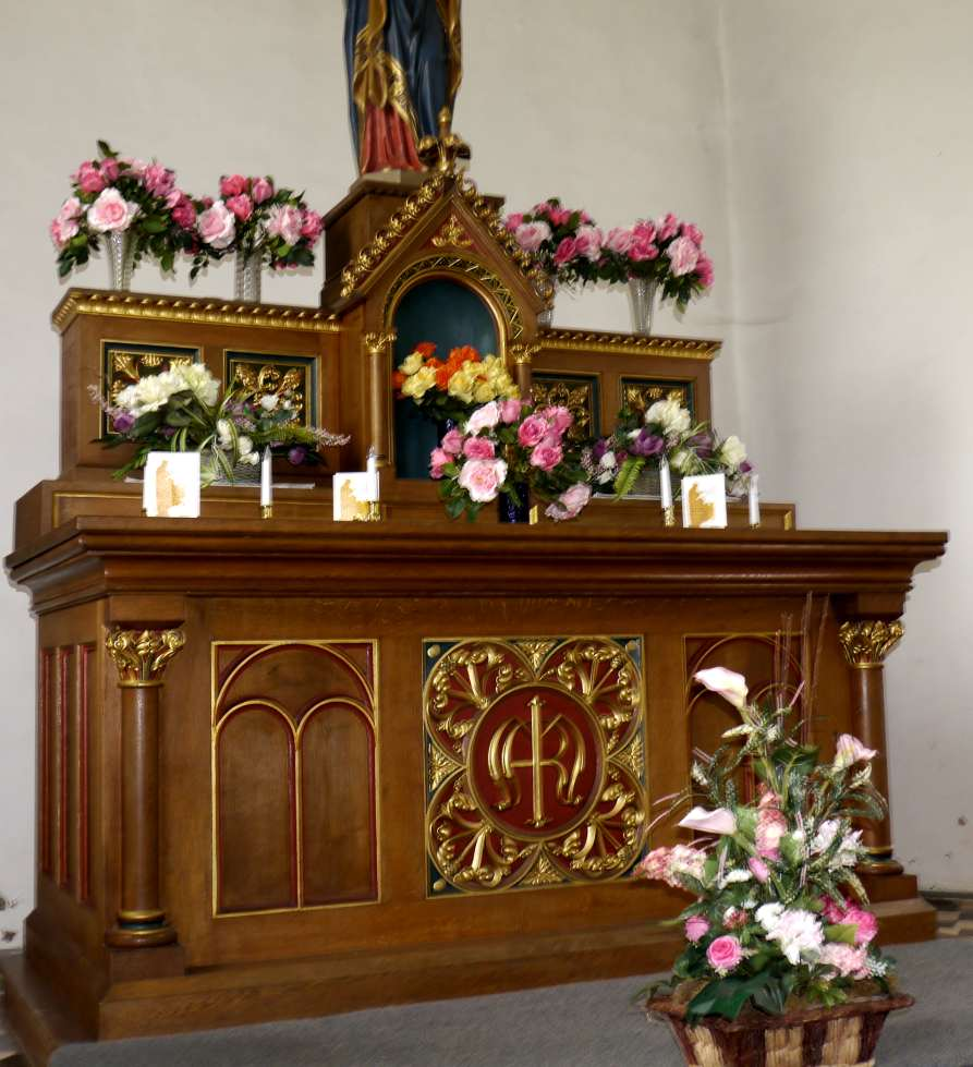 Altar Walleschkapelle